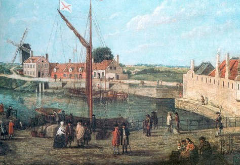 Versterkte brugse poort rechts - 1751 kanaal brugge